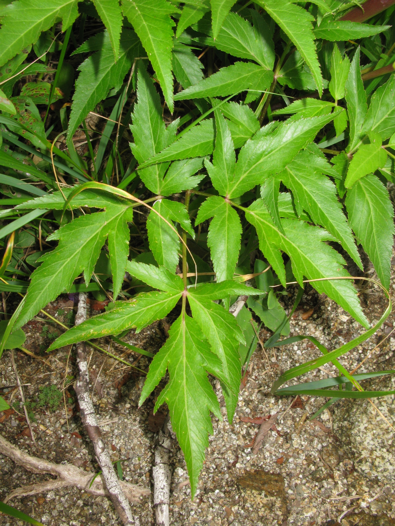 Angelica acutiloba subsp. iwatensis, Mt. Iide, Fukushima pref., Japan